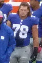 Eli Manning in shotgun formation vs. the Browns, 2012